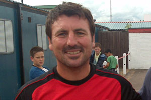 Picture of Dale Belford.